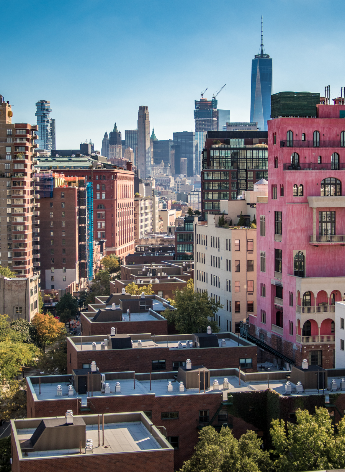 Shot from the WestBeth Artist Community Roof. Winner of OHNY prize for exteriors.